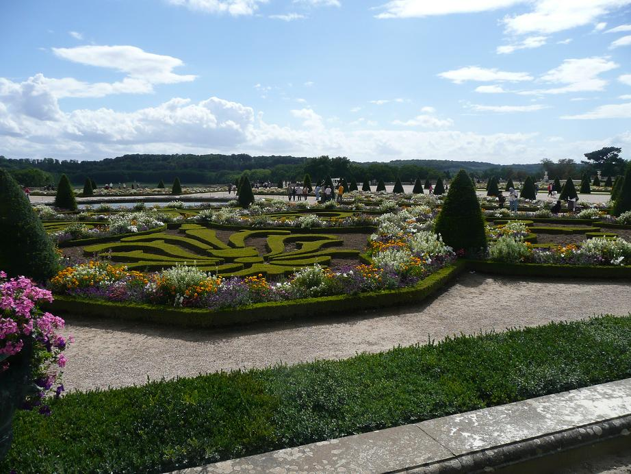 Palace of Versailles gardens